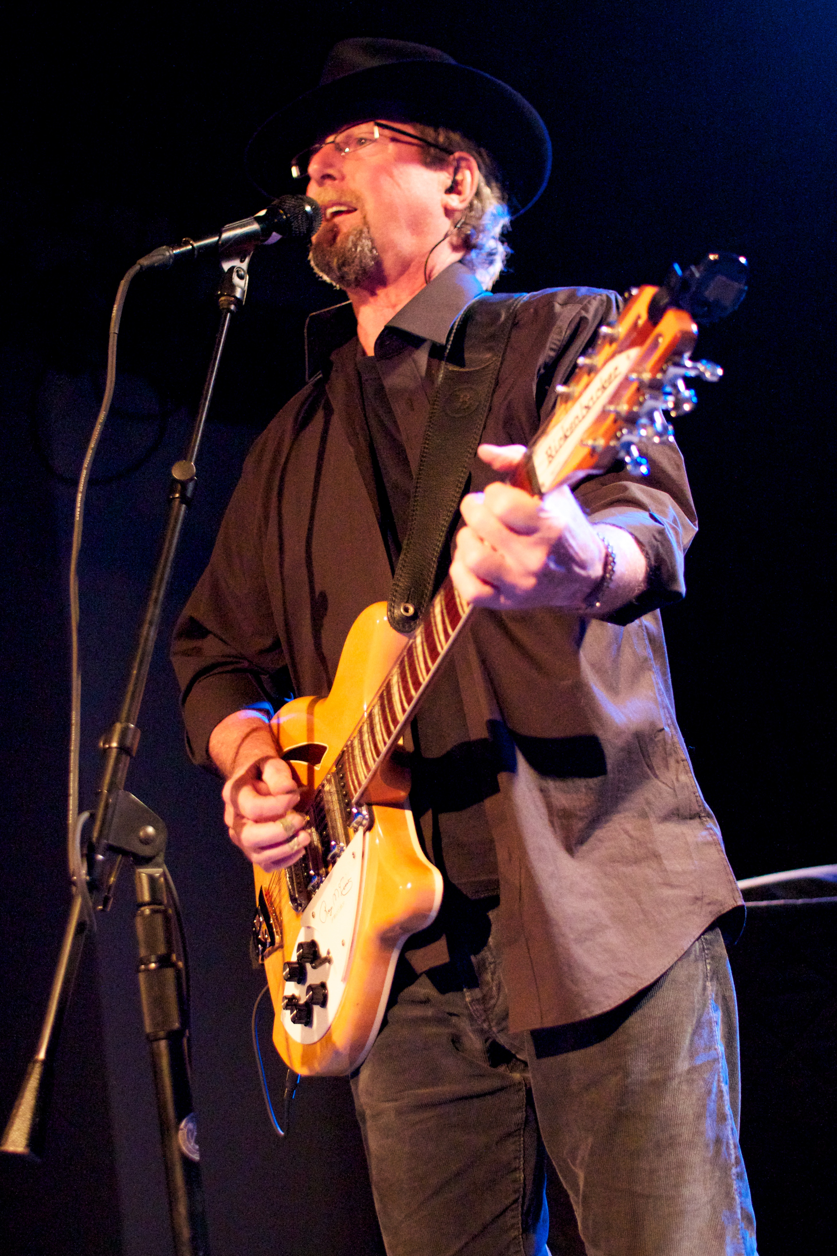 Roger McGuinn - Natick, MA (2011) Canon 7D/Sigma 30mm